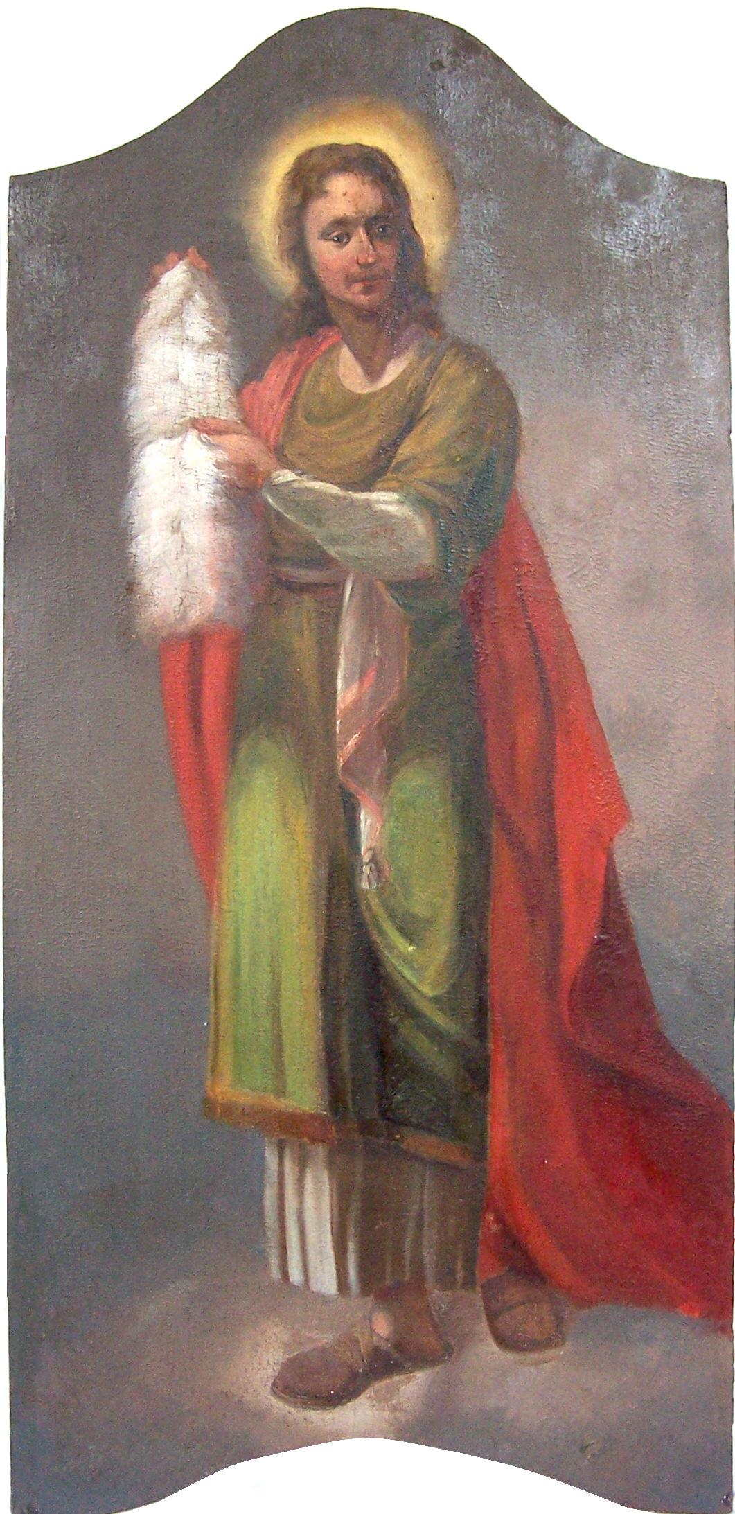 The picture is a Greek Catholic icon depicting the prophet Gideon with the roll of fleece in his hands. The icon was painted in the end of the 18th century as part of the iconostasis of the Greek Catholic Cathedral of Hajdúdorog, Hungary. Gideon's icon is placed on the third tier of the iconostasis, the so called Prophets tier. This icon is the fifth painting from the right.